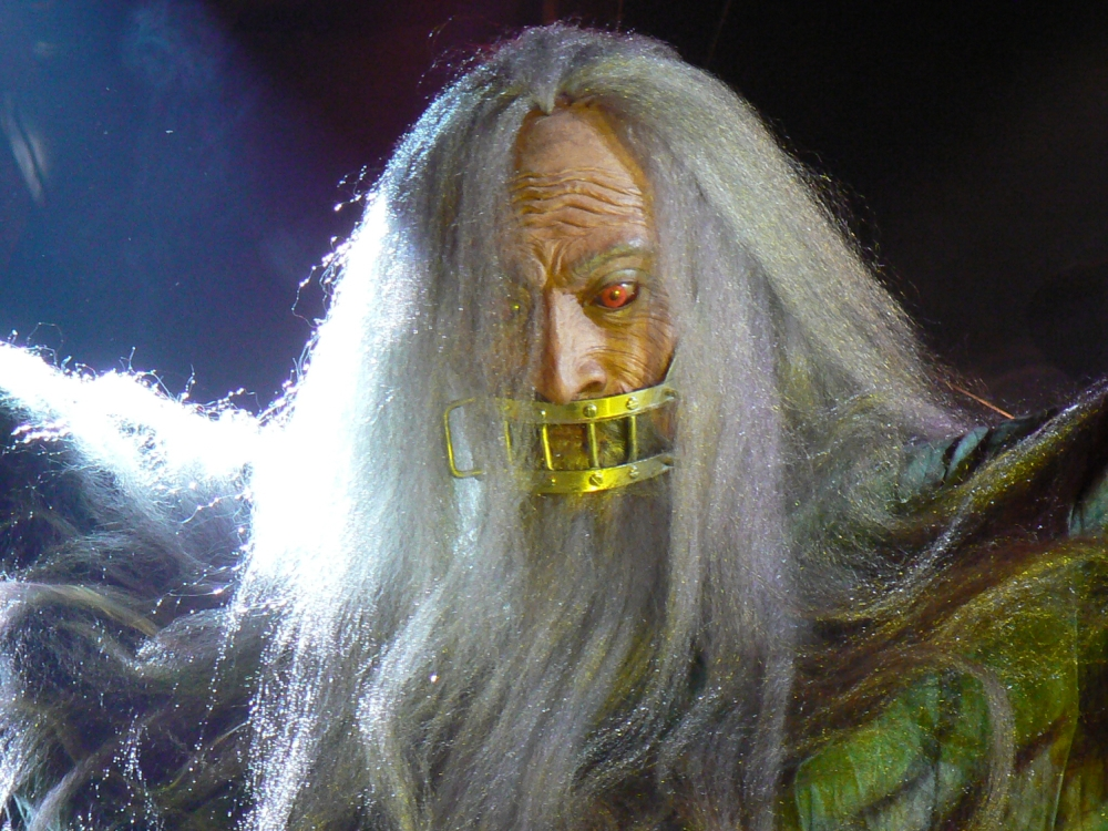 Photo taken of Wiseman during the Keep Wiseman Alive show in 2006.